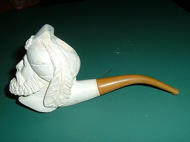 Meerschaum pipe, not used, so the head is white and not yellow or brown